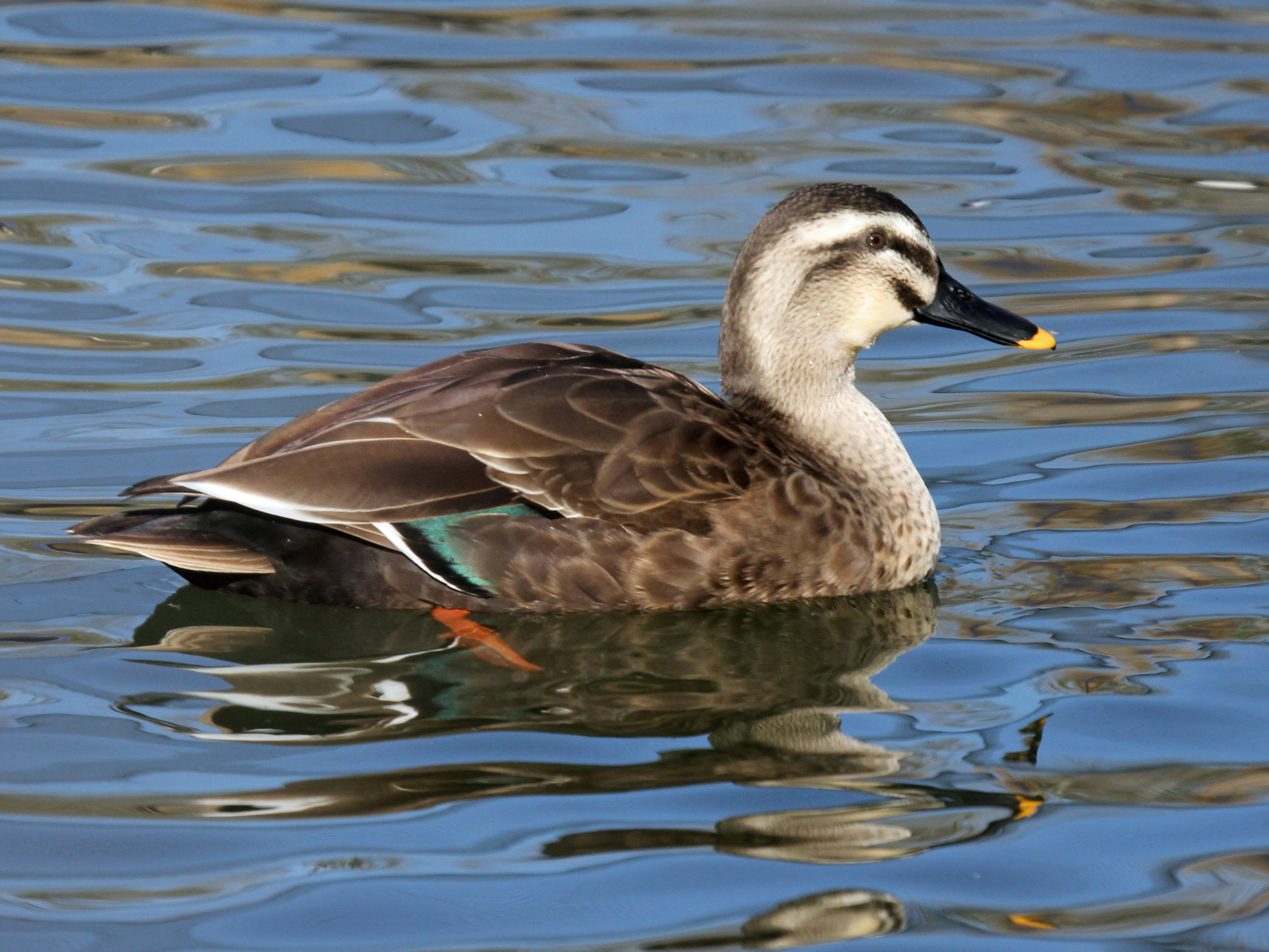 Eastern Spot-billed Duck Anas zonorhyncha. Photographed at Sylvan Heights Waterfowl Park, Scotland Neck, North Carolina.